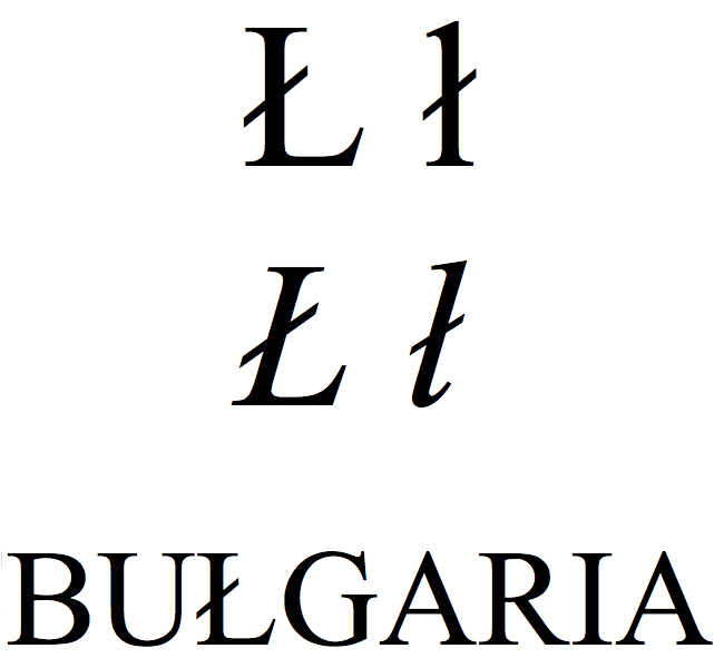 latin small and capital letter l with stroke, and small capitals ‘Bułgaria’